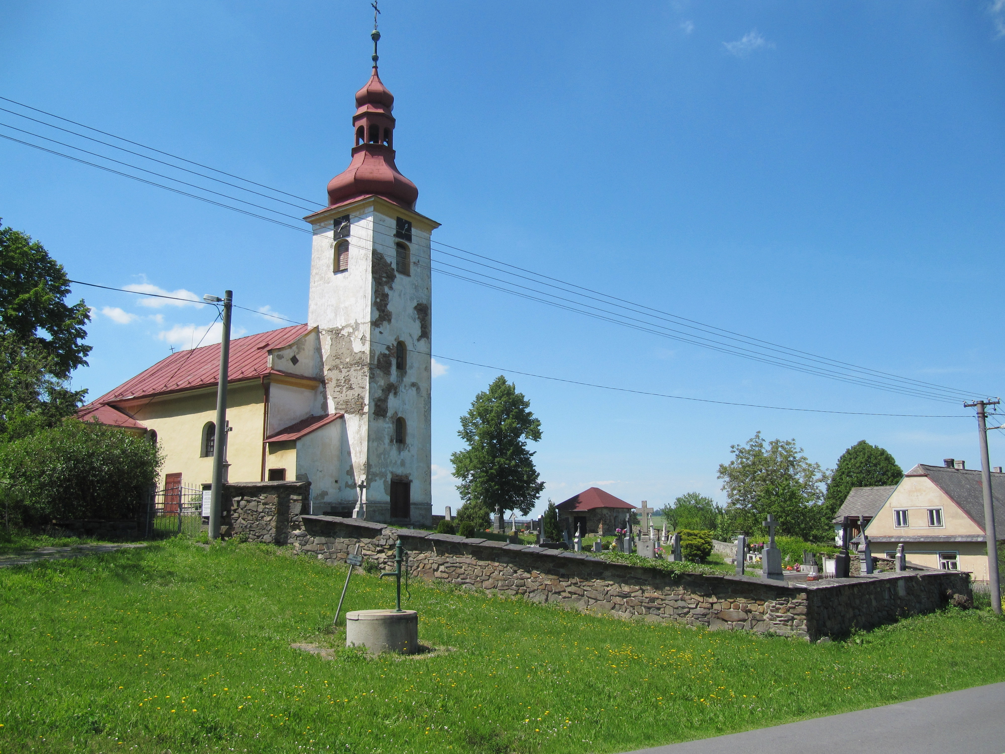 Vítkov, Opava District, Czech Republic, part Nové Těchanovice.